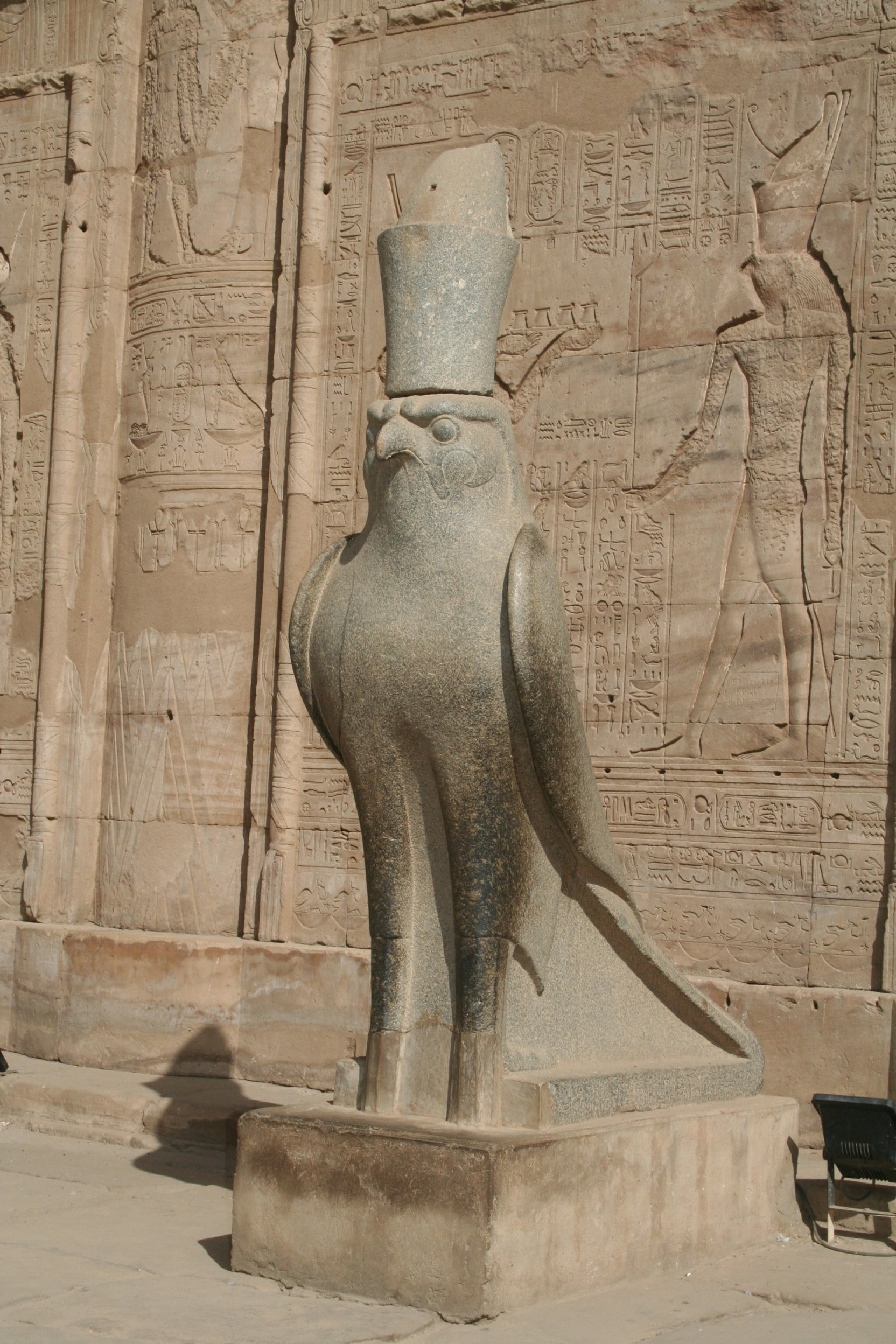 Statue of Horus at the second pylon - Temple of Horus @ Edfu